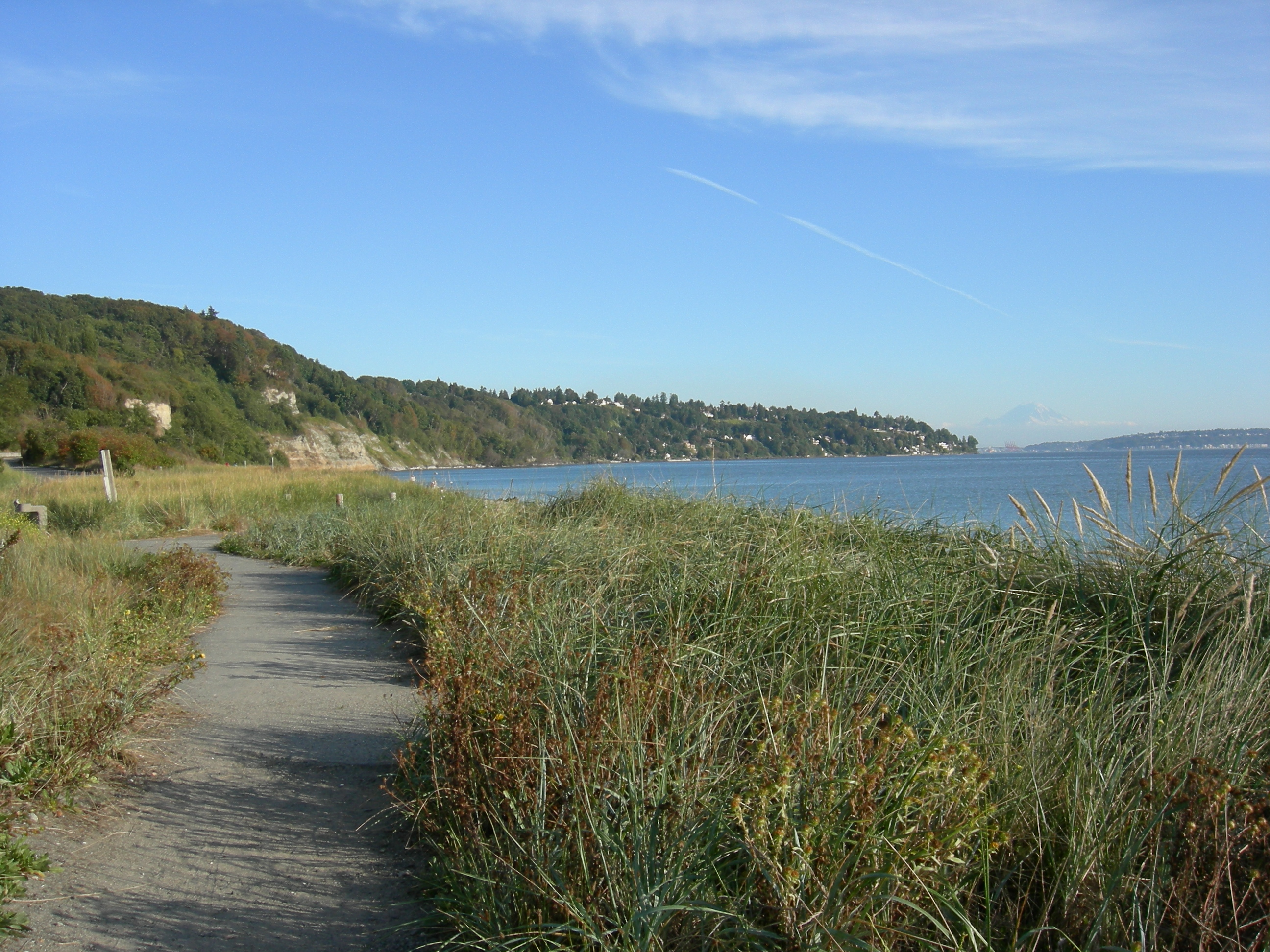 Looking roughly southeast from West Point along the path along the south beach of Discovery Park, Seattle, Washington, USA. Beyond the beach are sand cliffs of the park itself, then (to the right) houses further south on Magnolia. In the distance at left are Mount Rainier and West Seattle. The body of water is the northwest corner of Elliott Bay, part of Puget Sound.